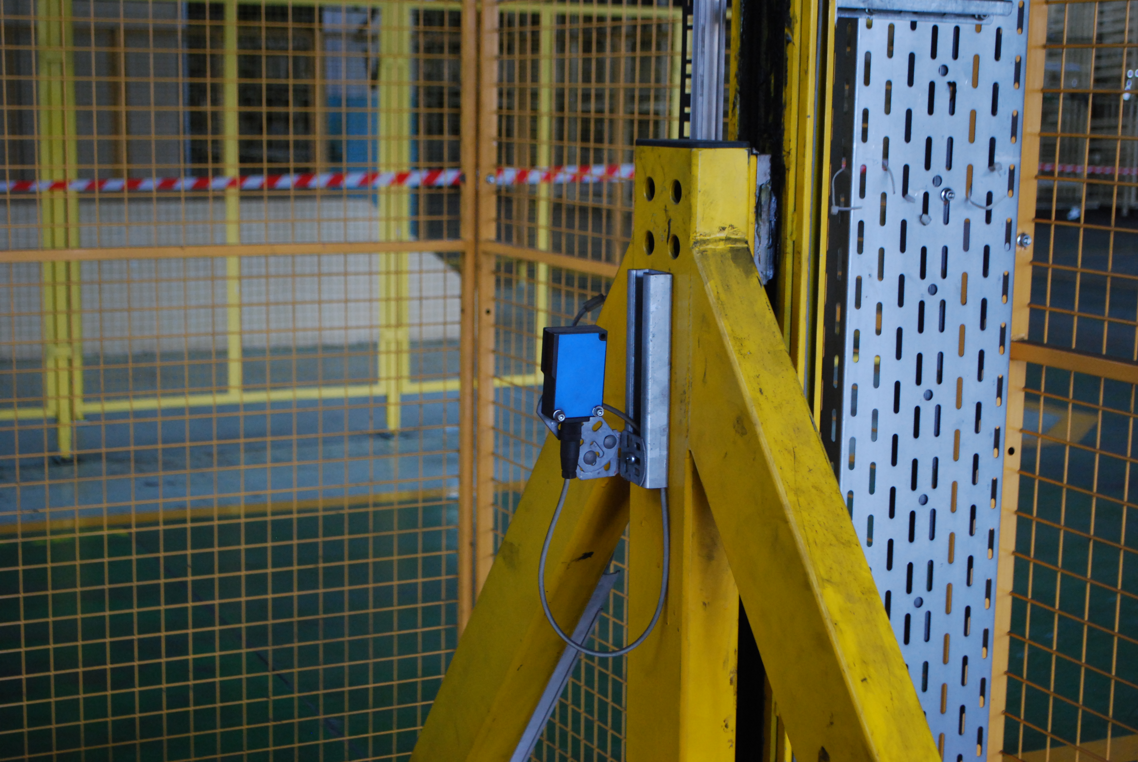 Foto sensor